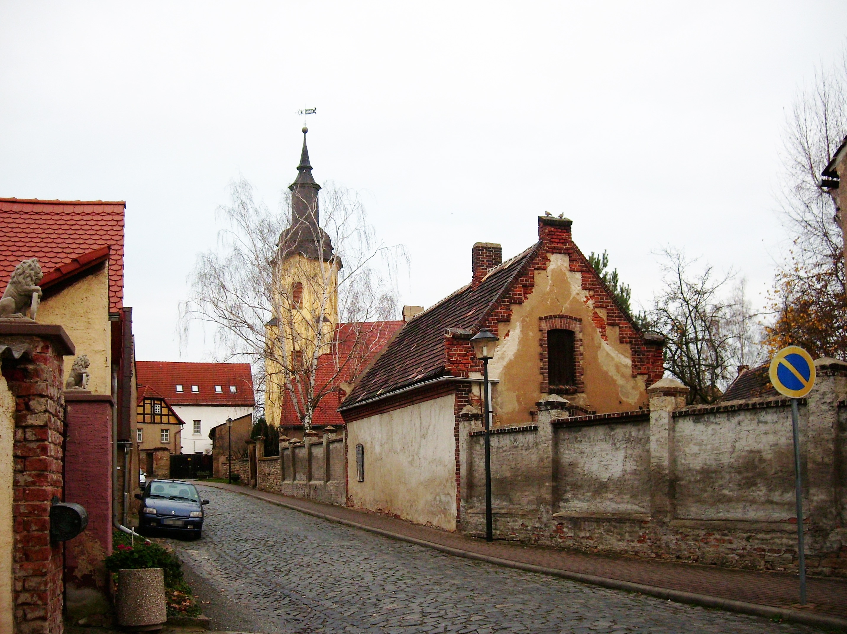 Near the church in Draschwitz (Elsteraue, district in Burgenlandkreis, Saxony-Anhalt)